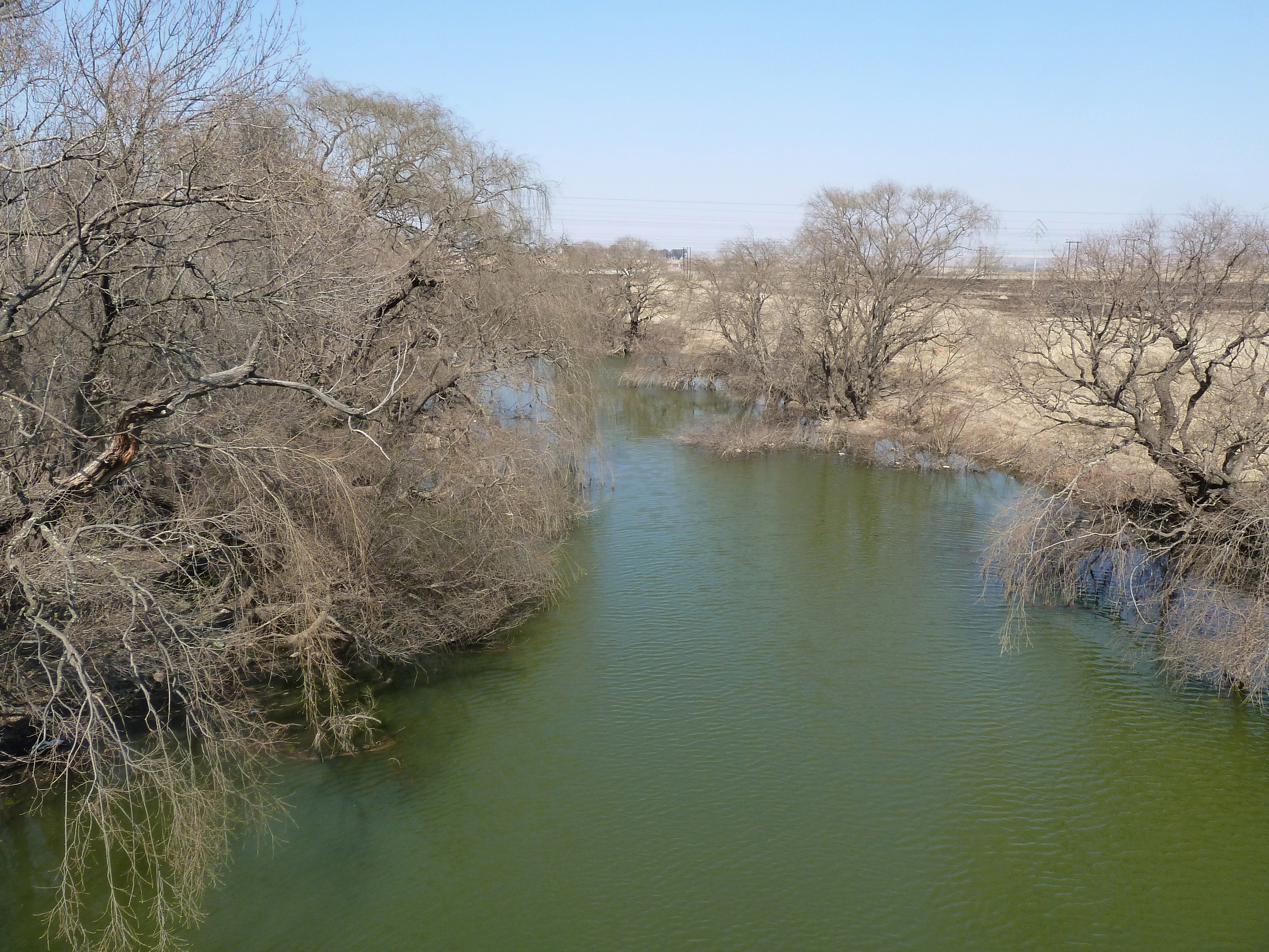 Wilge river seen from route 5 west of Harrismith, Free State